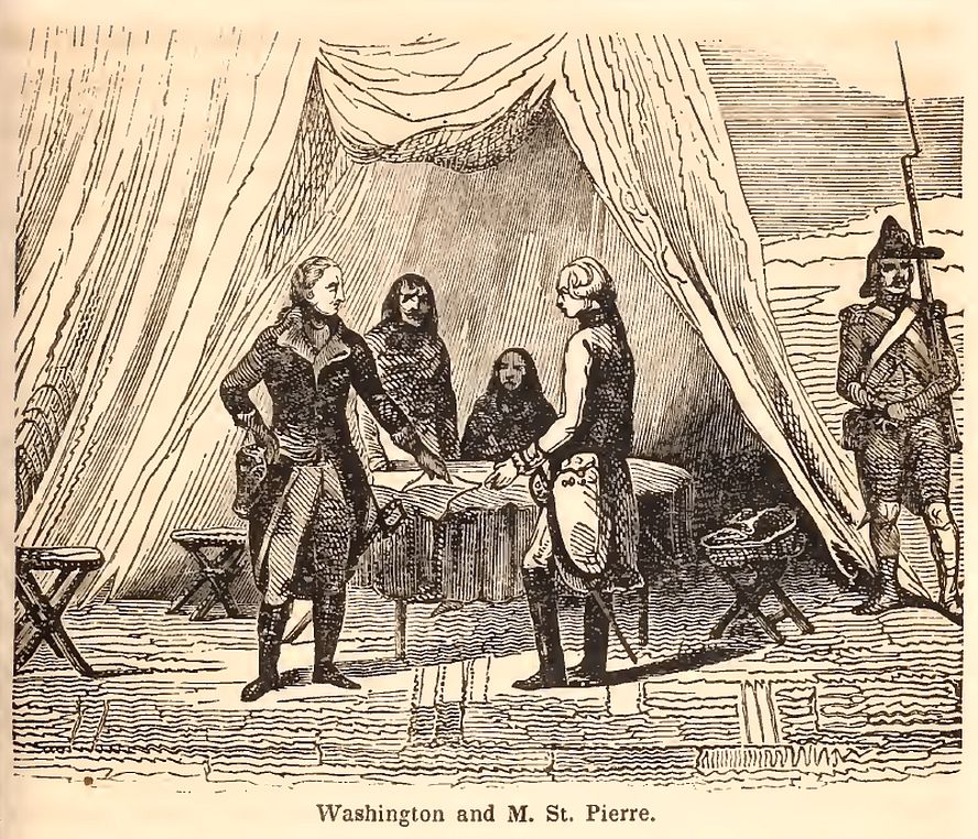 Engraving depicting the yYoung George Washington meeting with French military commander Jacques Legardeur de Saint-Pierre in 1753, taken from The Book of the Colonies, by John Frost, published in 1846.